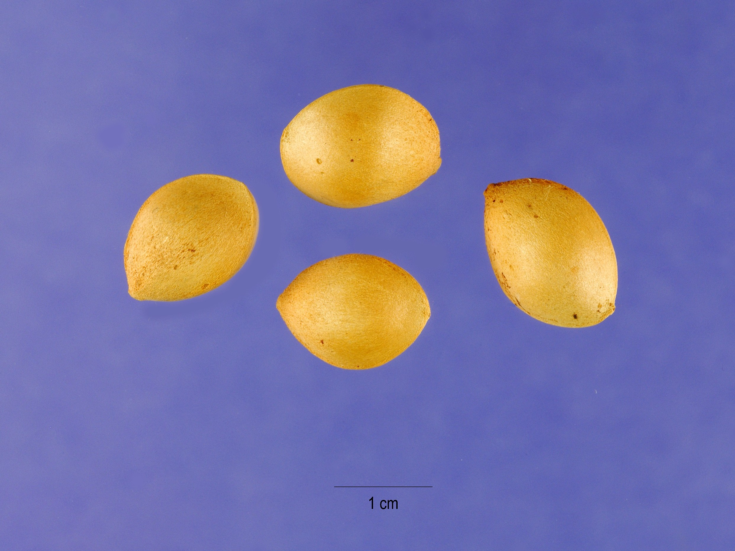 Maidenhair tree